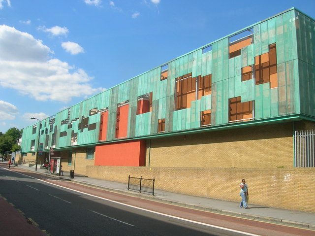 Haverstock School, Haverstock Hill, London NW3 Looking up Haverstock Hill